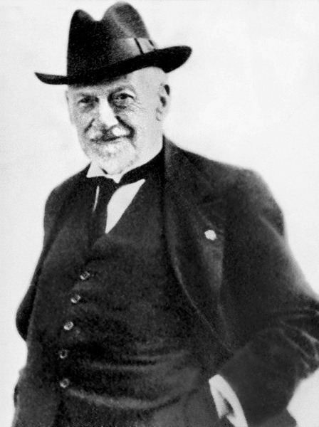 Portrait of Attilio Odero